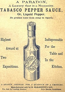 1890s Tabasco pepper sauce advertisement